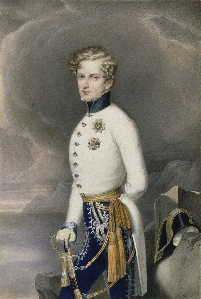 Napoleon II, also known as Franz, Duke of Reichstadt